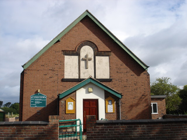 St Luke's parish church, Moorbridge Lane, Stapleford, Nottinghamshire, seen from the south